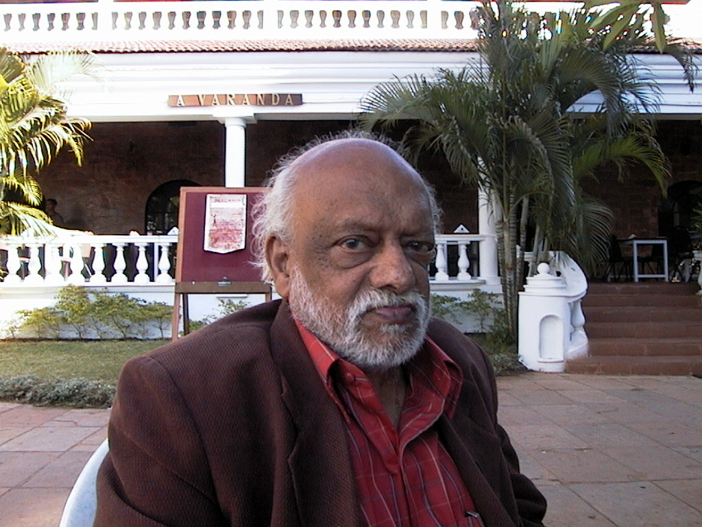 Artist FN Souza , seen at a hotel in Arpora, Goa, a few months before his death.